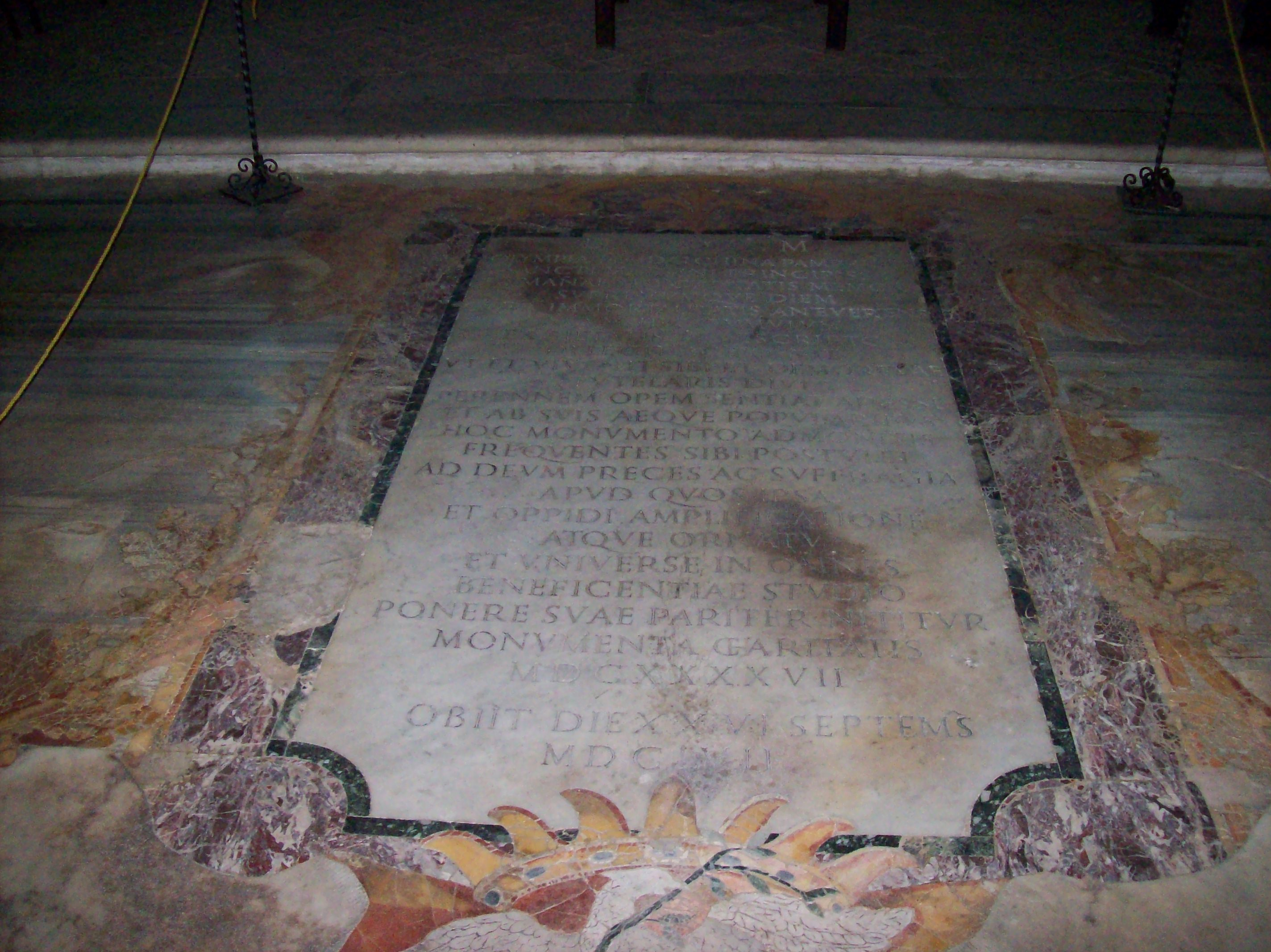 The grave of Donna Olimpia Pamphilj (died 1657) located in the abbey of St Martin of Tours, in San Martino al Cimino, Viterbo, Italy